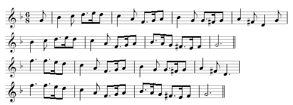 The image is copied from wikipedia: de. The original description is: Greensleeves-motiv